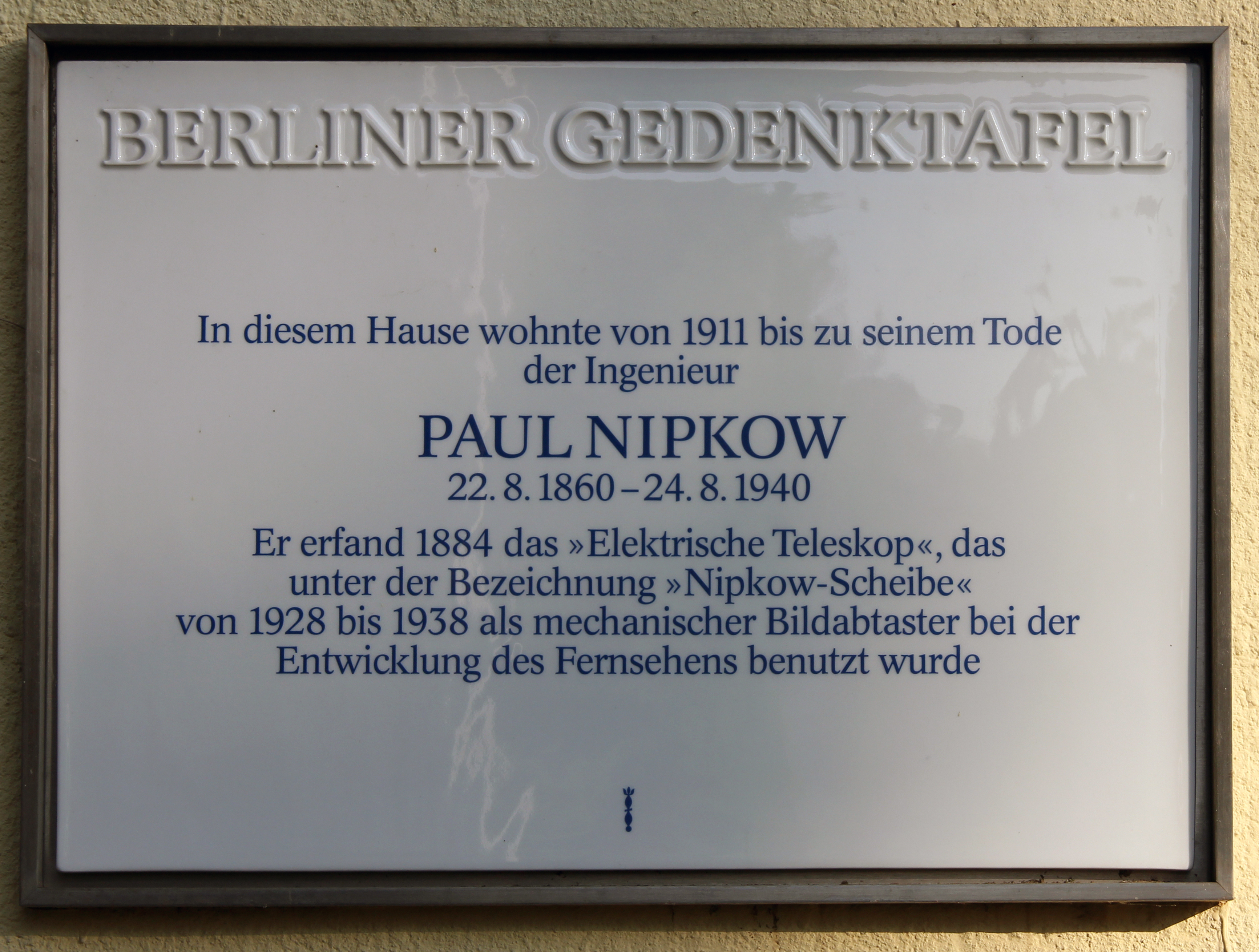 Berlin memorial plaque, Paul Nipkow, Parkstraße 5, Berlin-Pankow, Germany Koordinate:52°34′16″N 13°23′59″E / 52.57111°N 13.39972°E